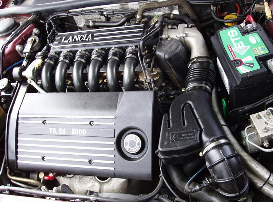 Engine of the Lancia Kappa Coupé 3,0